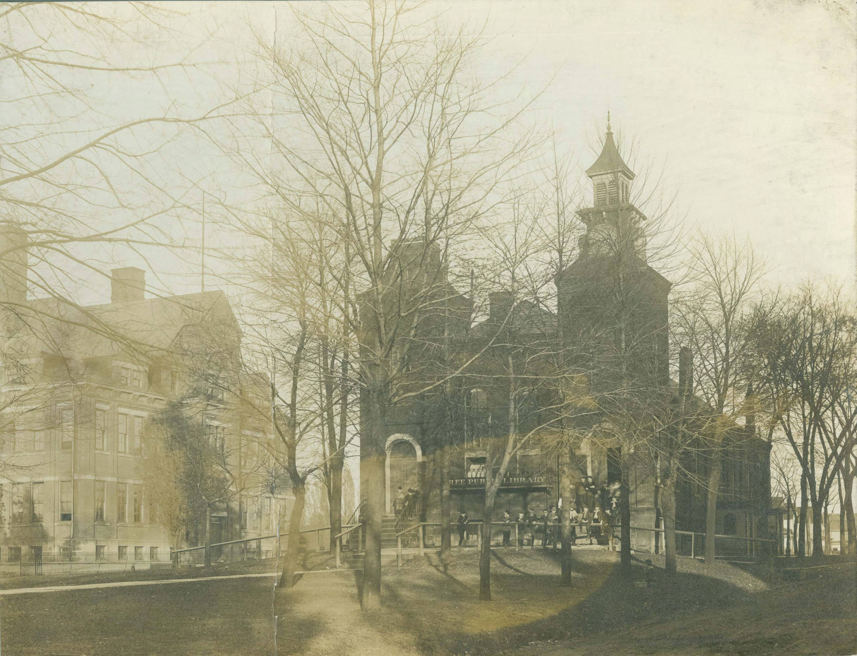 Exterior of the Miles Park Branch of the Cleveland Public Library in Cleveland, Ohio. The image dates between 1894 and 1903. The Miles Park Branch, only the second branch library in the city, opened in 1894 in the former Newburgh Town Hall (erected in 1860 and expanded in 1872). It closed about 1903, and this structure was demolished. A new building was erected on the same site, and opened as the branch library in March 1906. The 1906 structure closed in 1987.